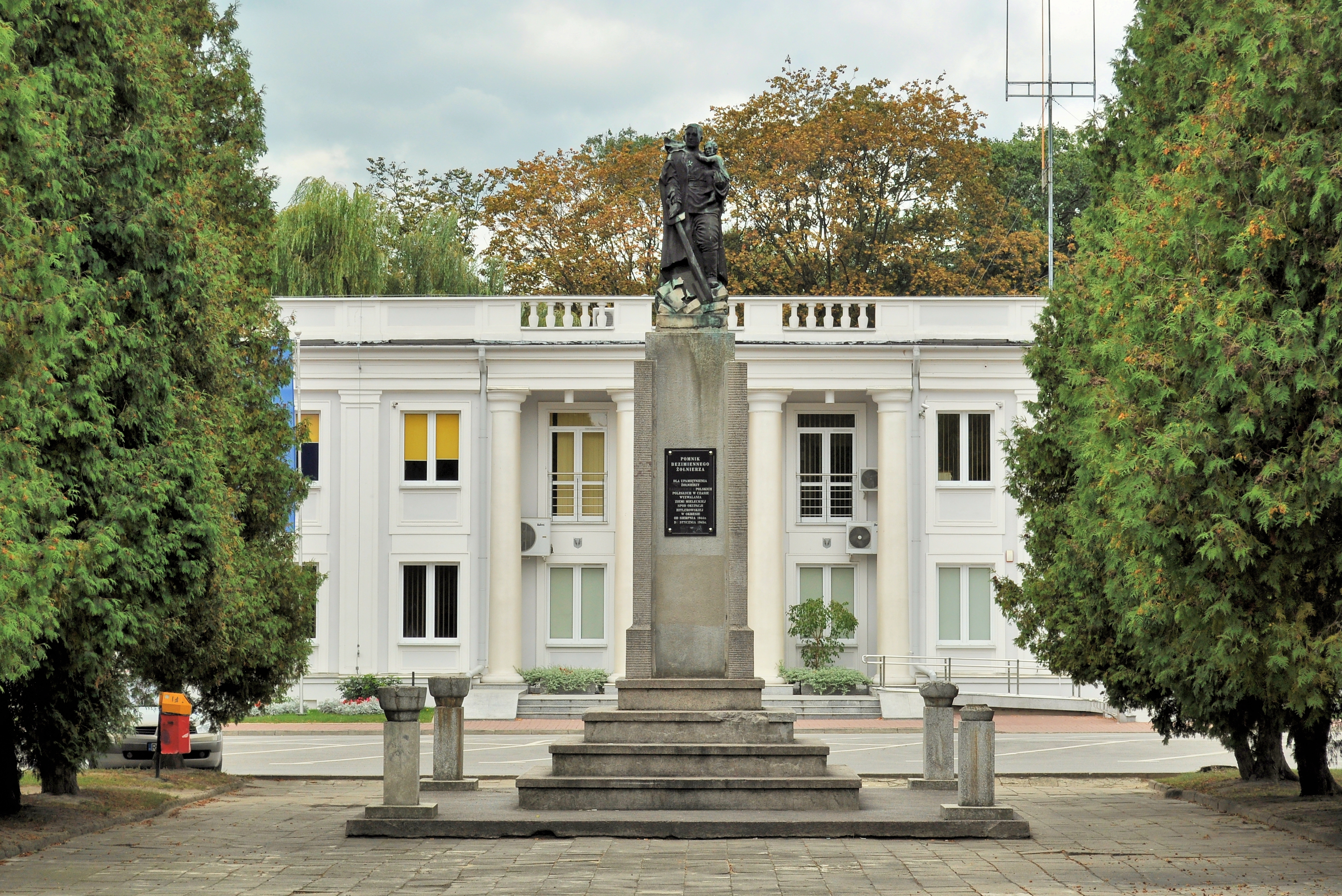 Monument to the Unknown Soldier in Mielec